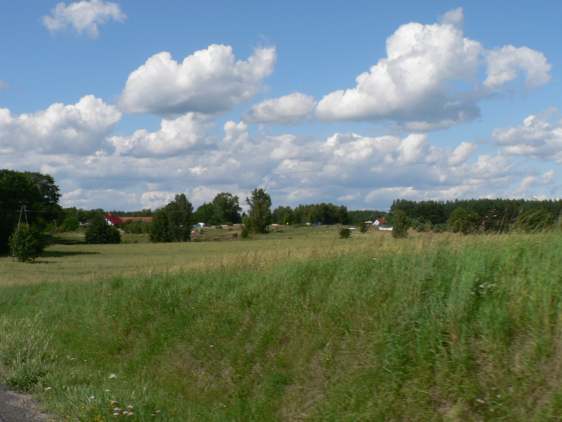 Swaderki near Olsztynek